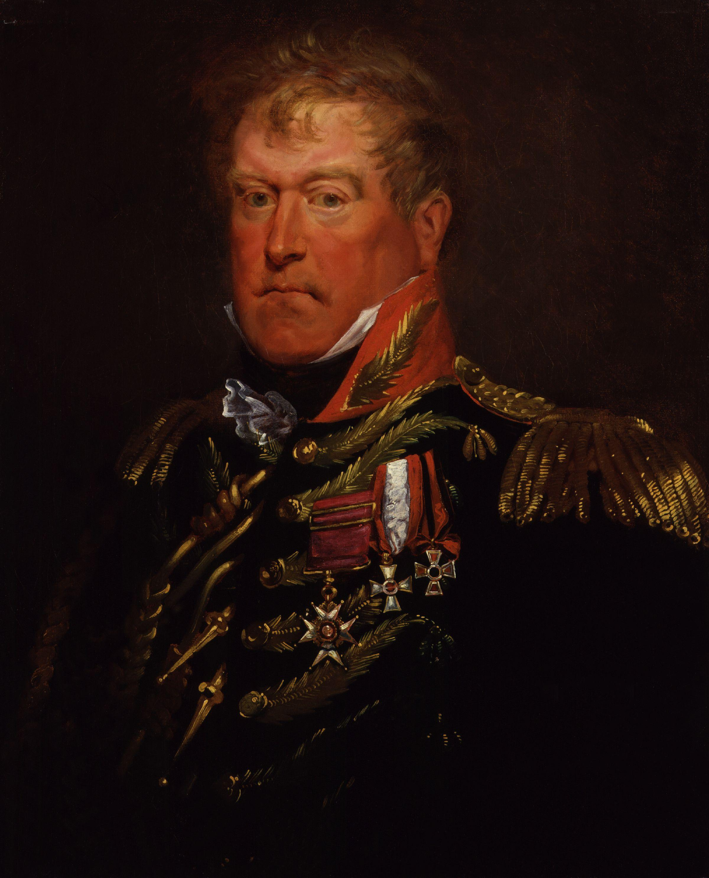 Sir George Adam Wood, by S. Cole (floruit 1815). All images in this batch have a known author with unknown death date, but according to the NPG's website the author was floruit (known to be active) prior to 1859, and so is reasonably presumed dead by 1939.